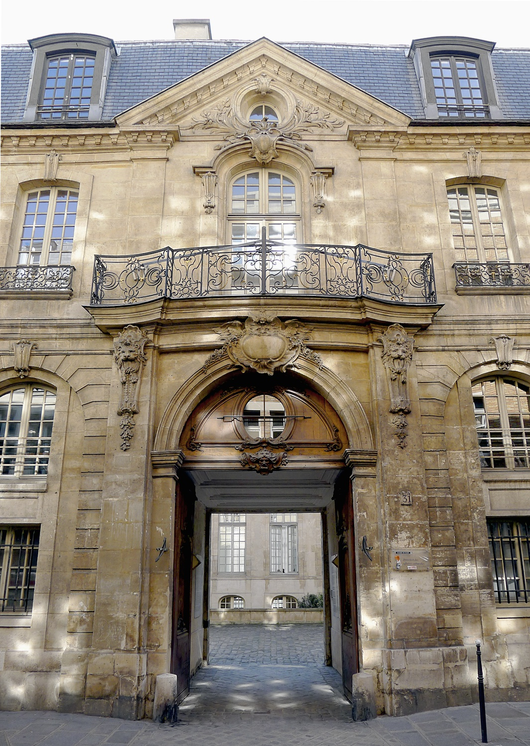 Francs-Bourgeois street - Paris